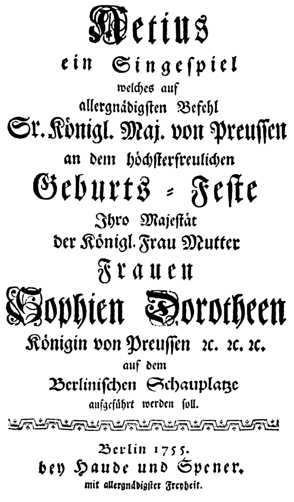 Carl Heinrich Graun - Ezio - german titlepage of the libretto - Berlin 1755